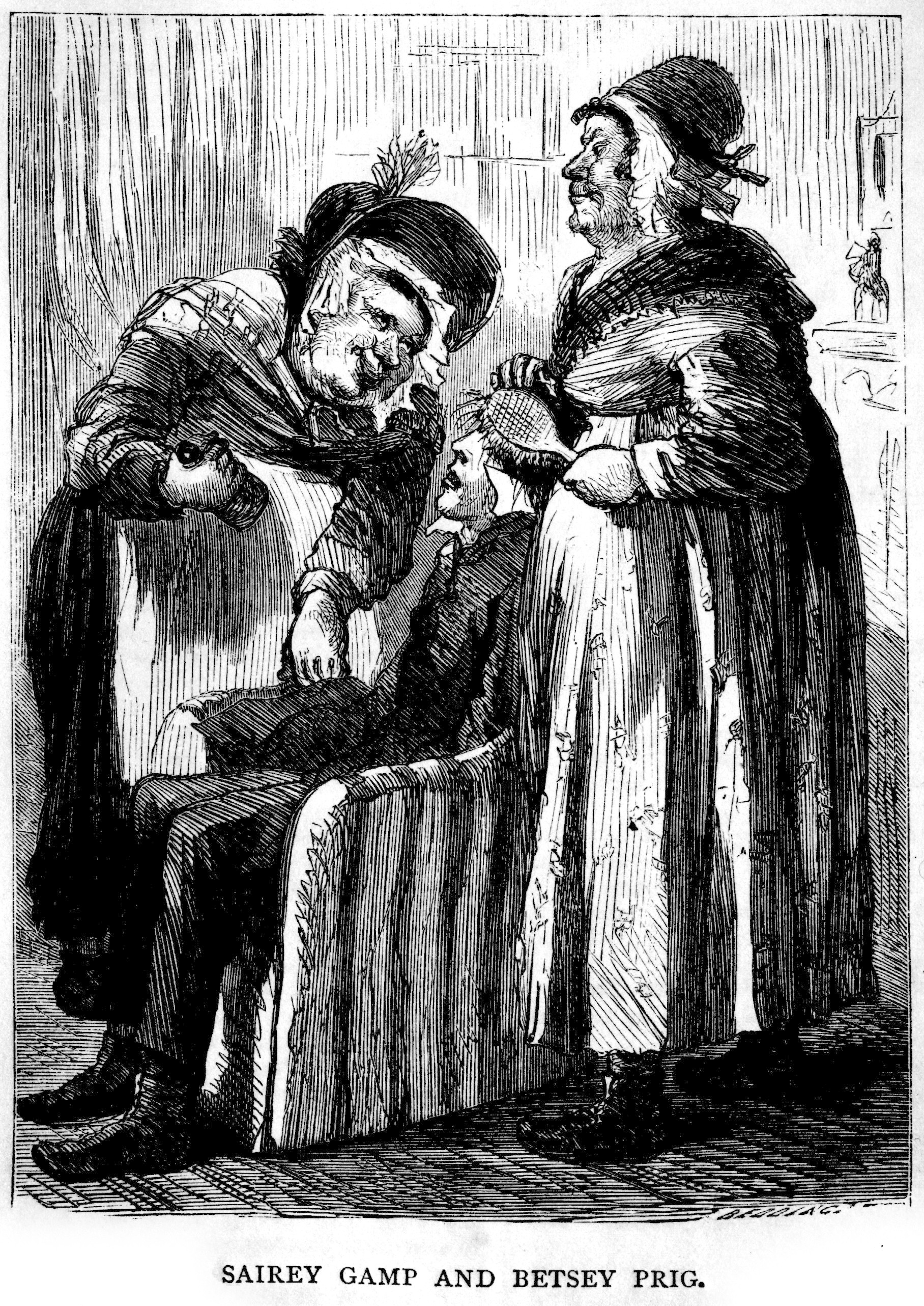 Illustration from 1867 U.S. edition of Martin Chuzzlewit. Page 269. "Sairey Gamp and Betsey Prigg"